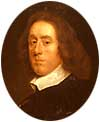 Detail from a portrait of Sir Henry Vane the Younger.